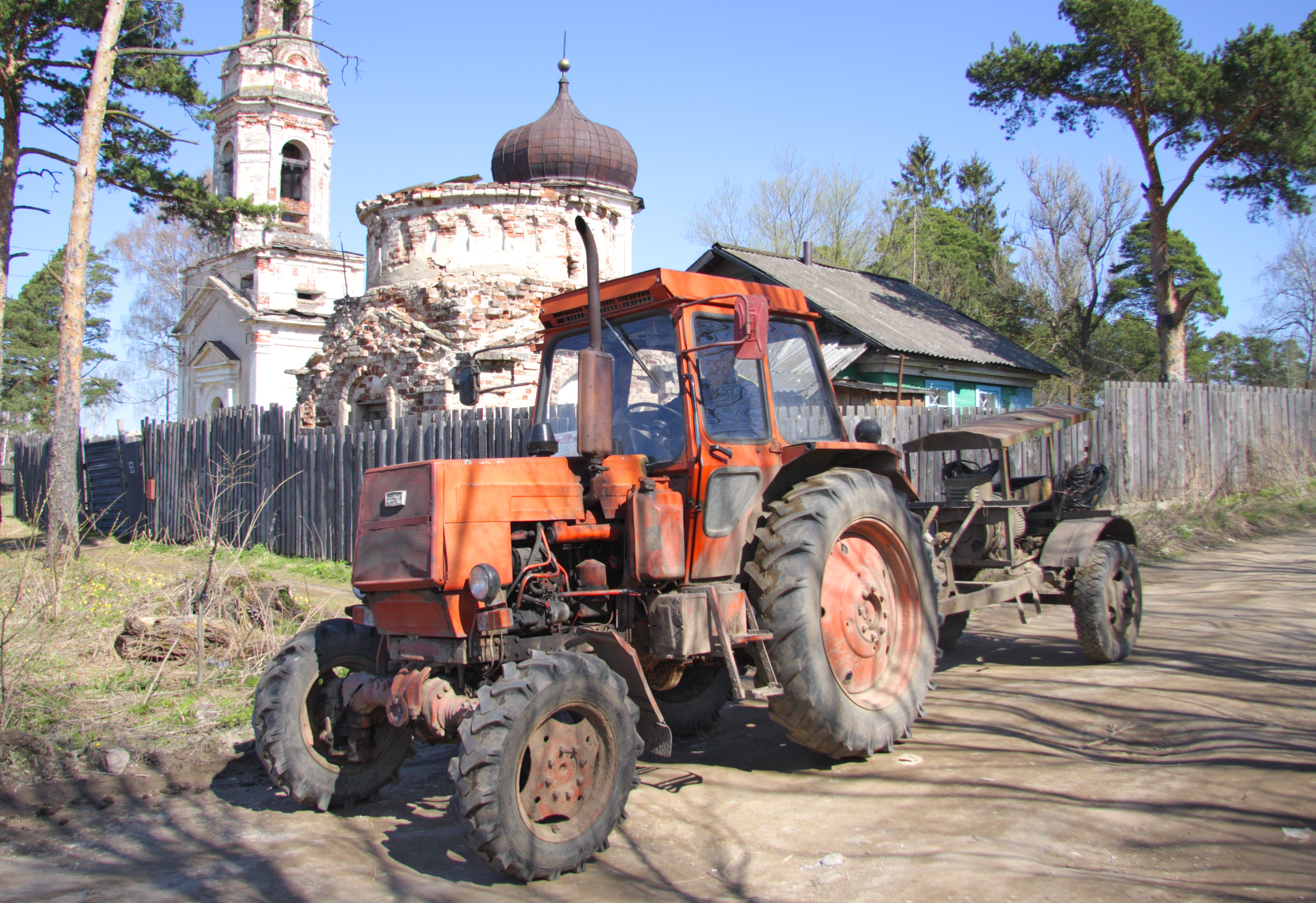 Vozneseniya Gospodnia church in Torzhok (T-40 LTZ-55A)